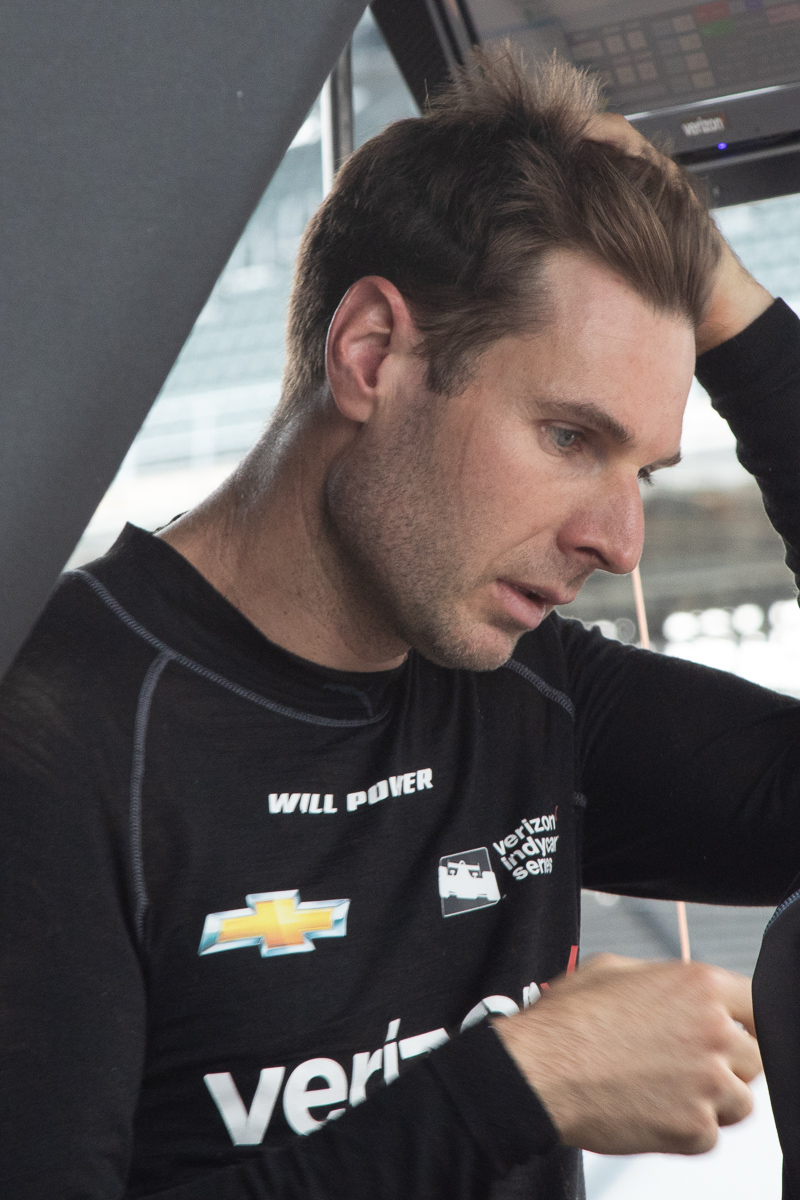 Will Power reviews telemetry during practice for the 2018 Indianapolis 500